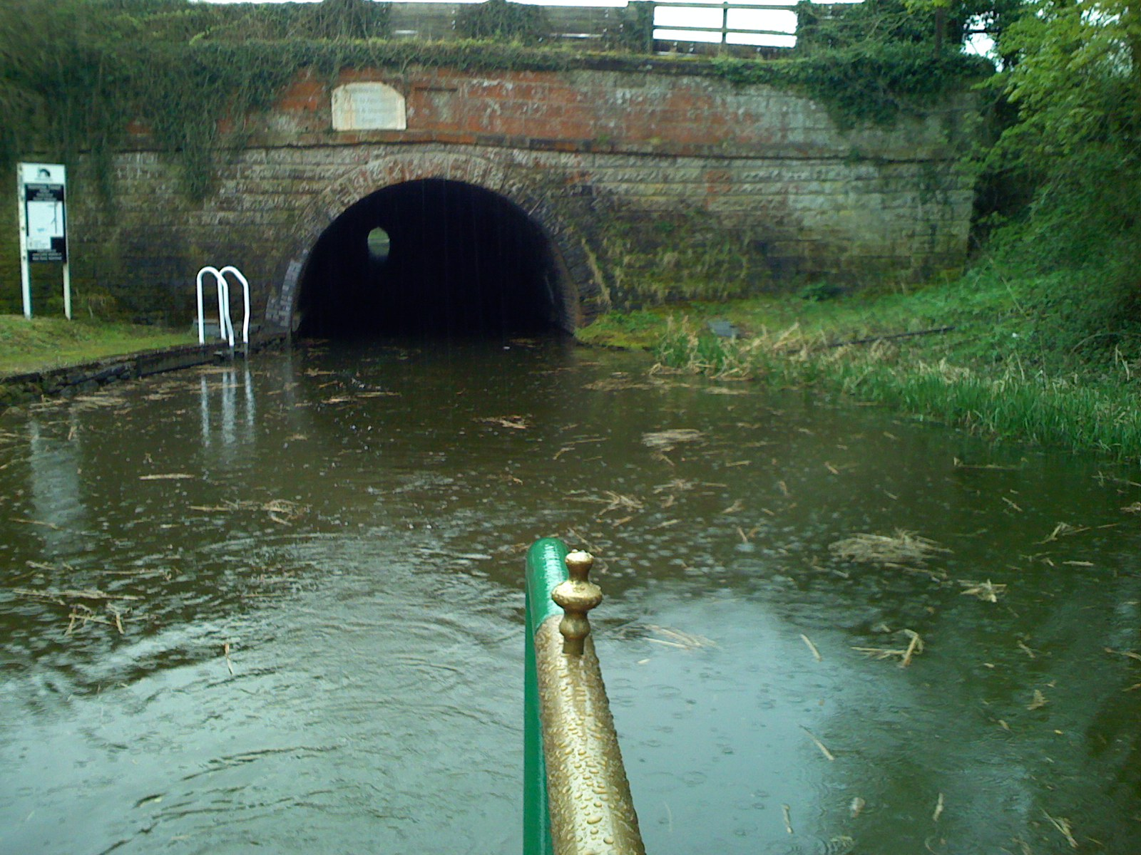 Ashby Canal, Snarestone Tunnel, north portal from stern of Narrowboat, also show Tiller. The picture is looking south on a rainy day.